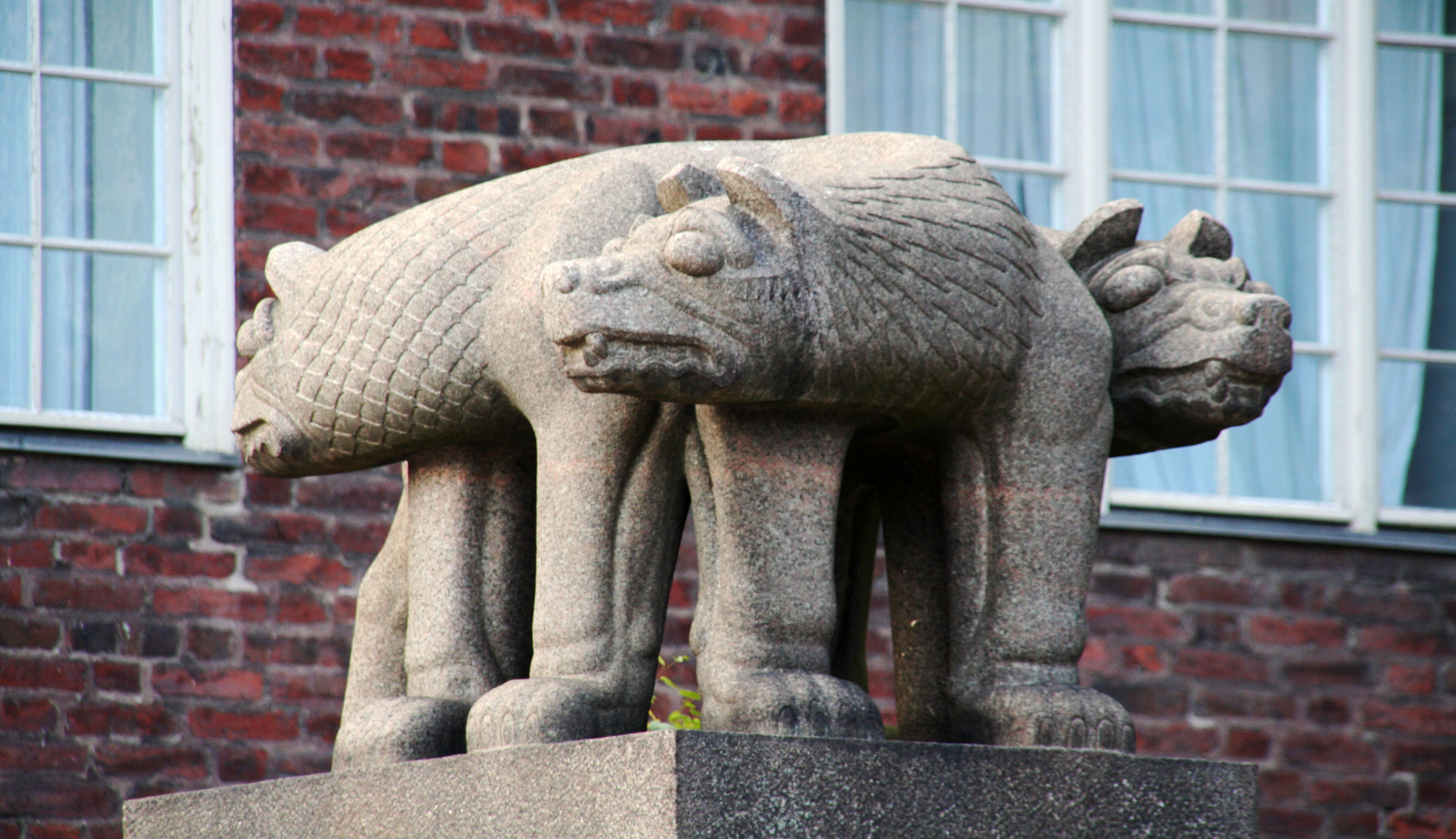 Cerberus guarding the entrance to the Royal Institute of Technology in Stockholm